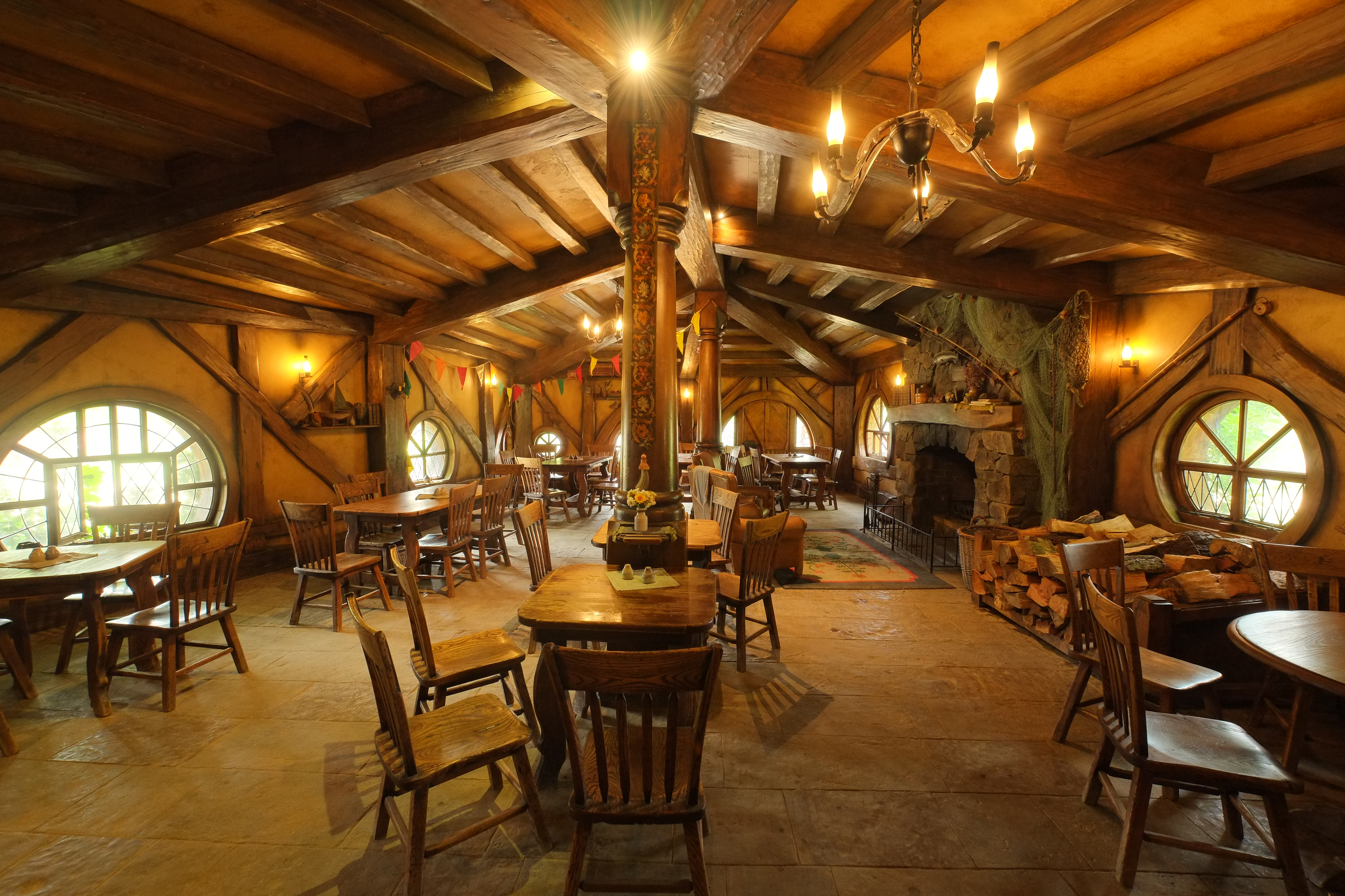 Tables and chairs inside The Green Dragon inn (Hobbiton movie set)